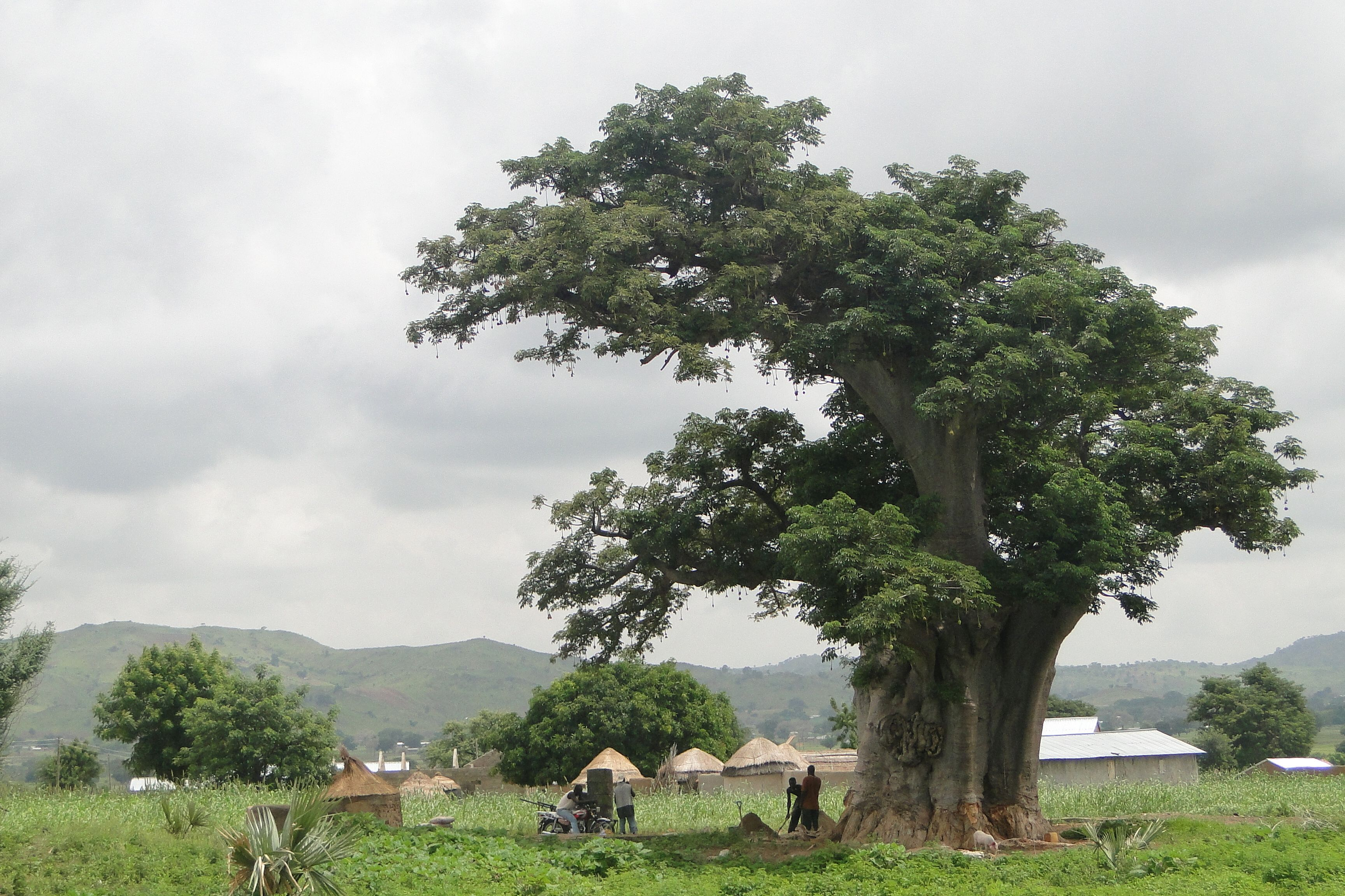 Rural scene in Zebilla in the Upper East Region of Ghana.